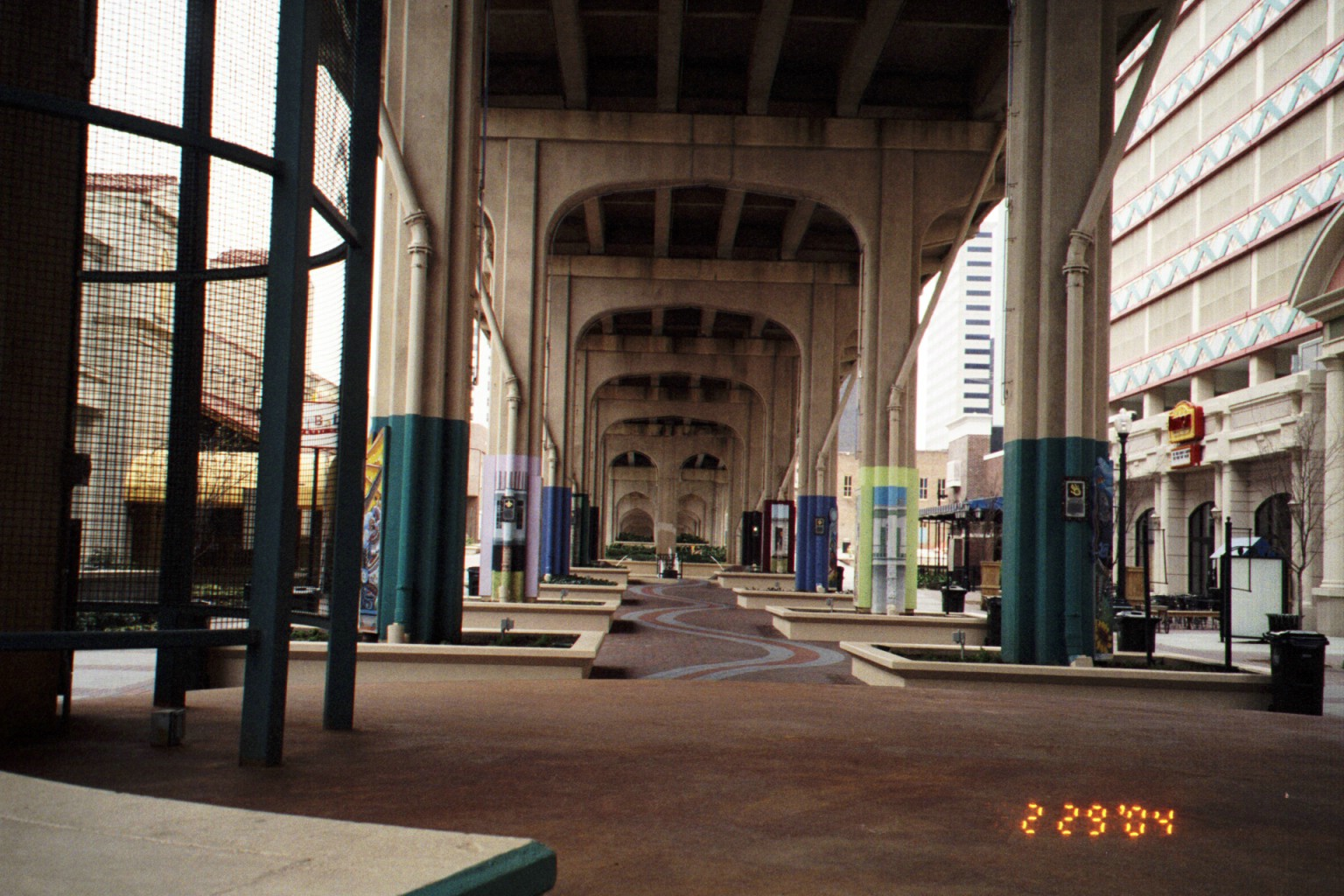 Area beneath Texas Street Bridge in Shreveport riverfront district, 2004